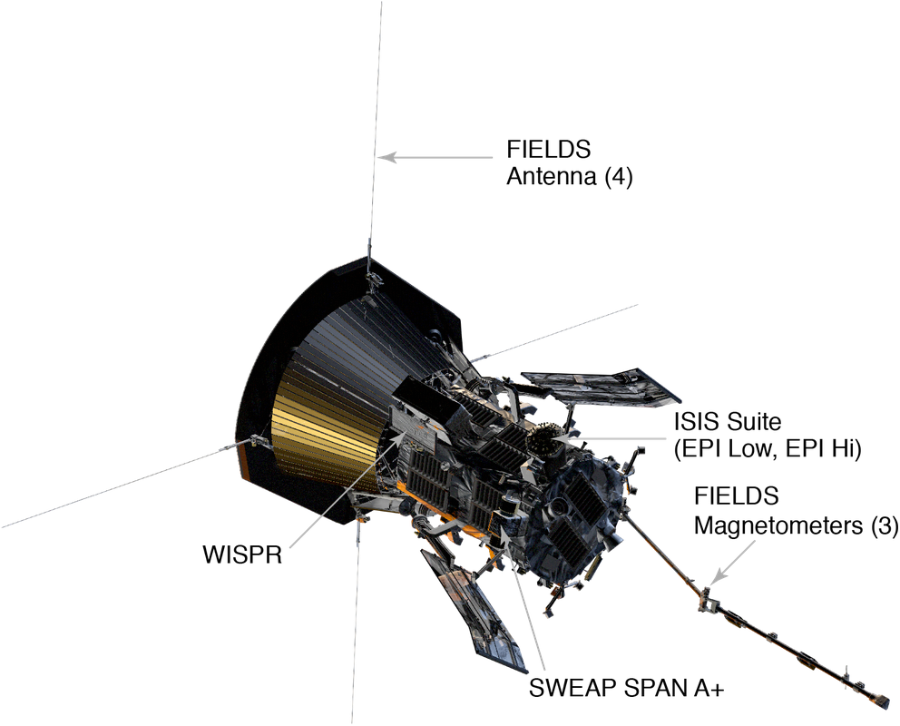 Parket Solar Probe (NASA) Ram Facing View